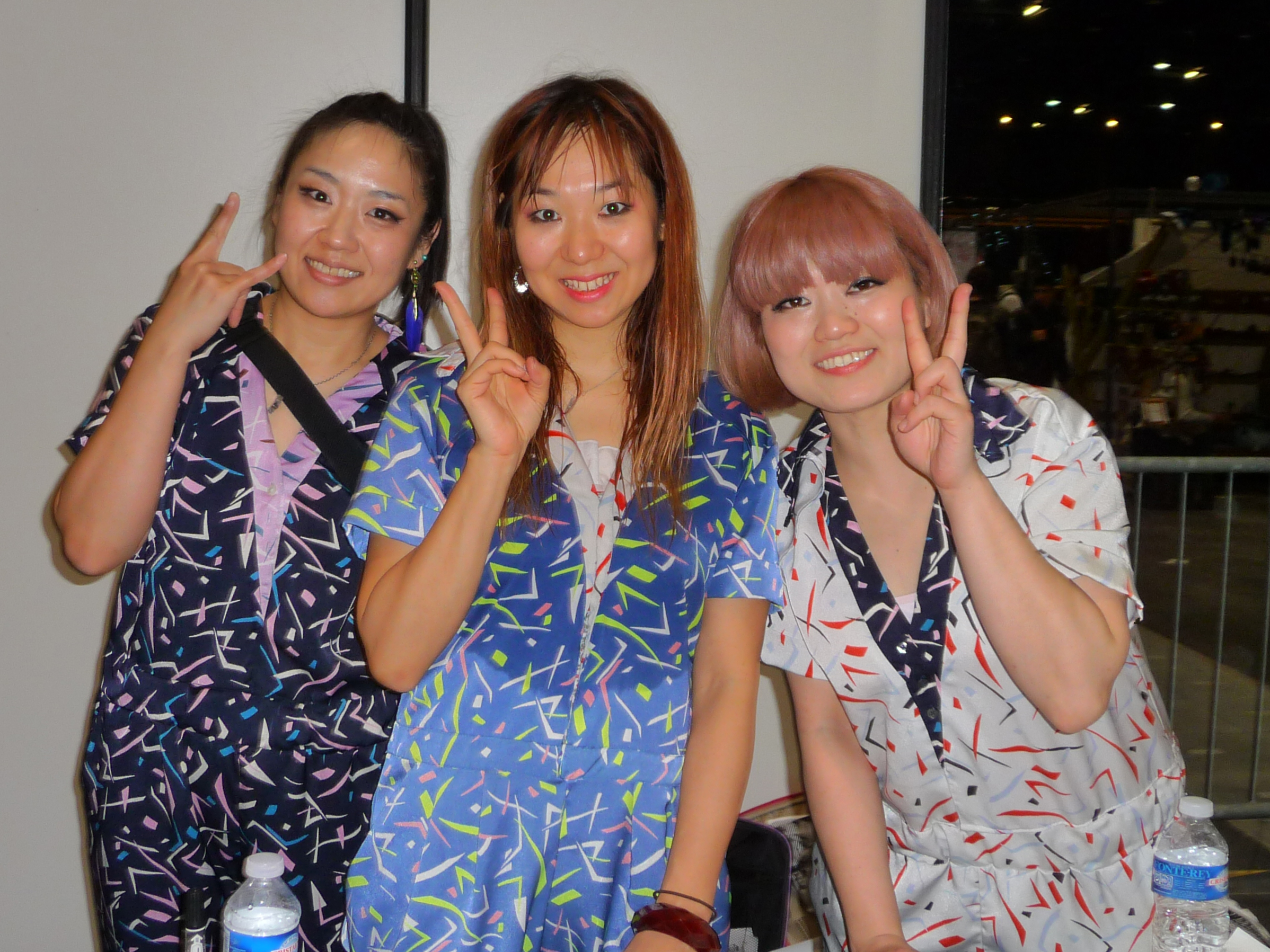 Japanese punk rock band TsuShiMaMiRe at Japan Touch (Lyon, France) on december 11 2016. From left to right: Mizue Masuda, Yayoi Tsushima, Mari Kono.